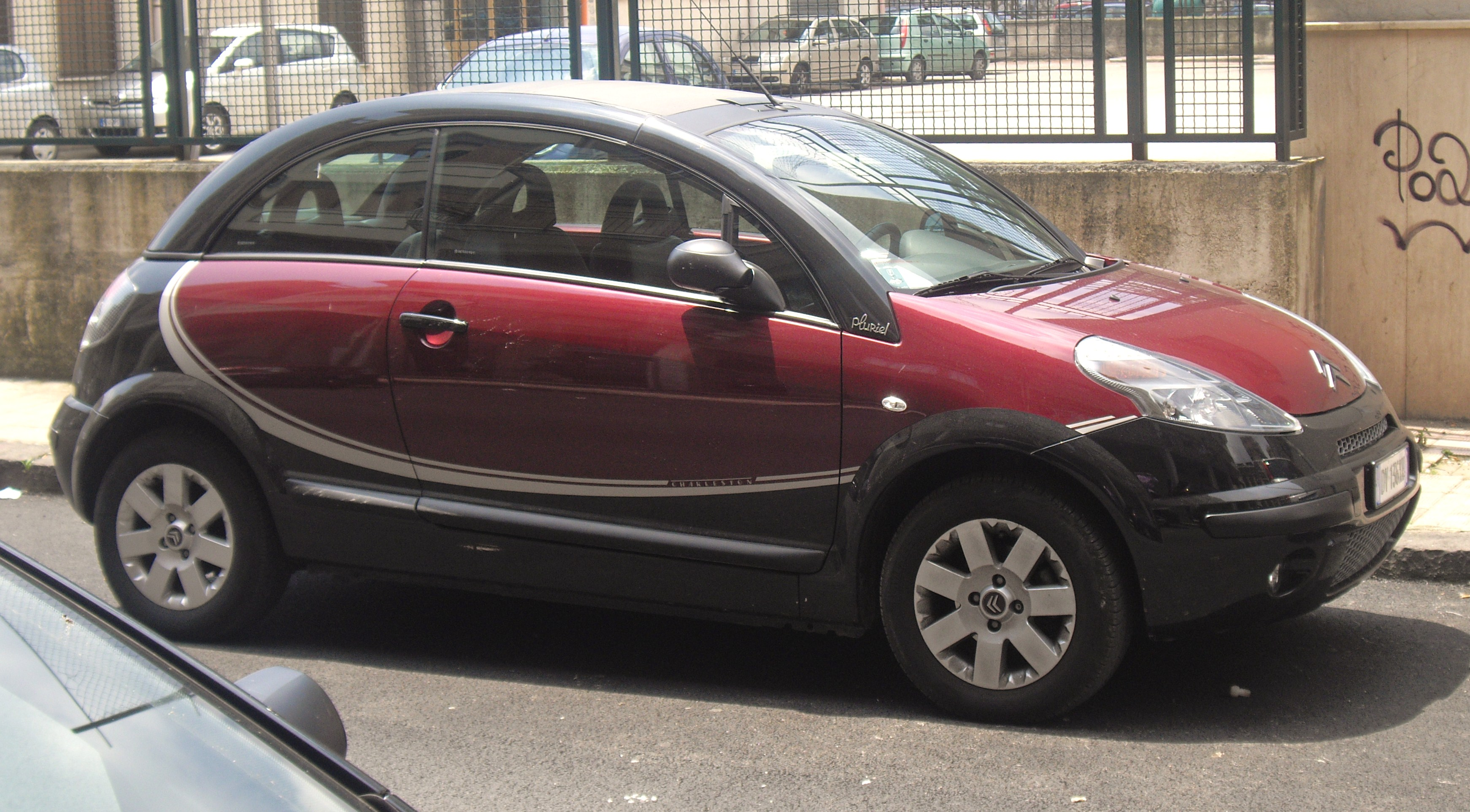 Citroën C3 Pluriel Charleston